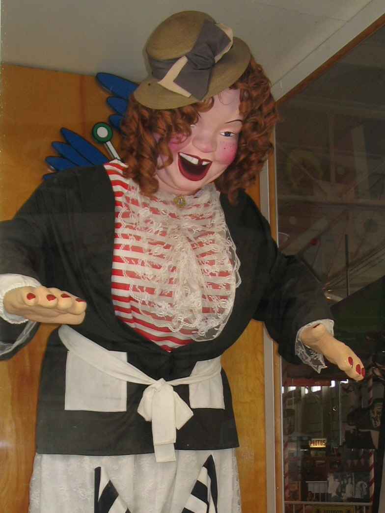 I (User:schmiteye) took this picture on 19 March 2005 at Pier 45 in San Francisco, California.